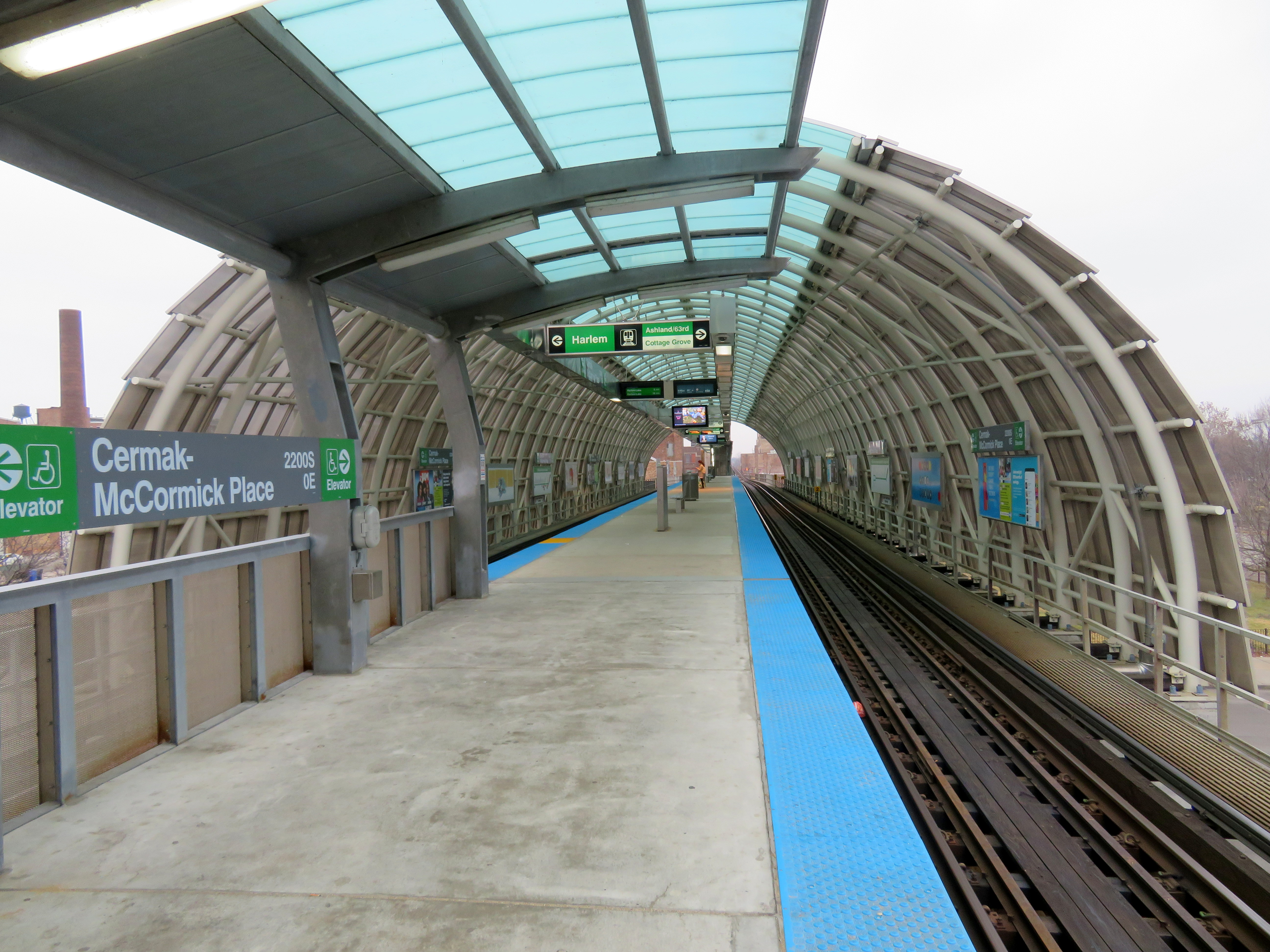 North end of Cermak–McCormick Place station in December 2018